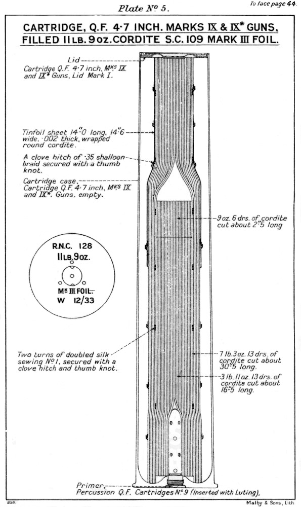 Diagram of cordite cartridge for British QF 4.7 inch Mk IX naval gun.